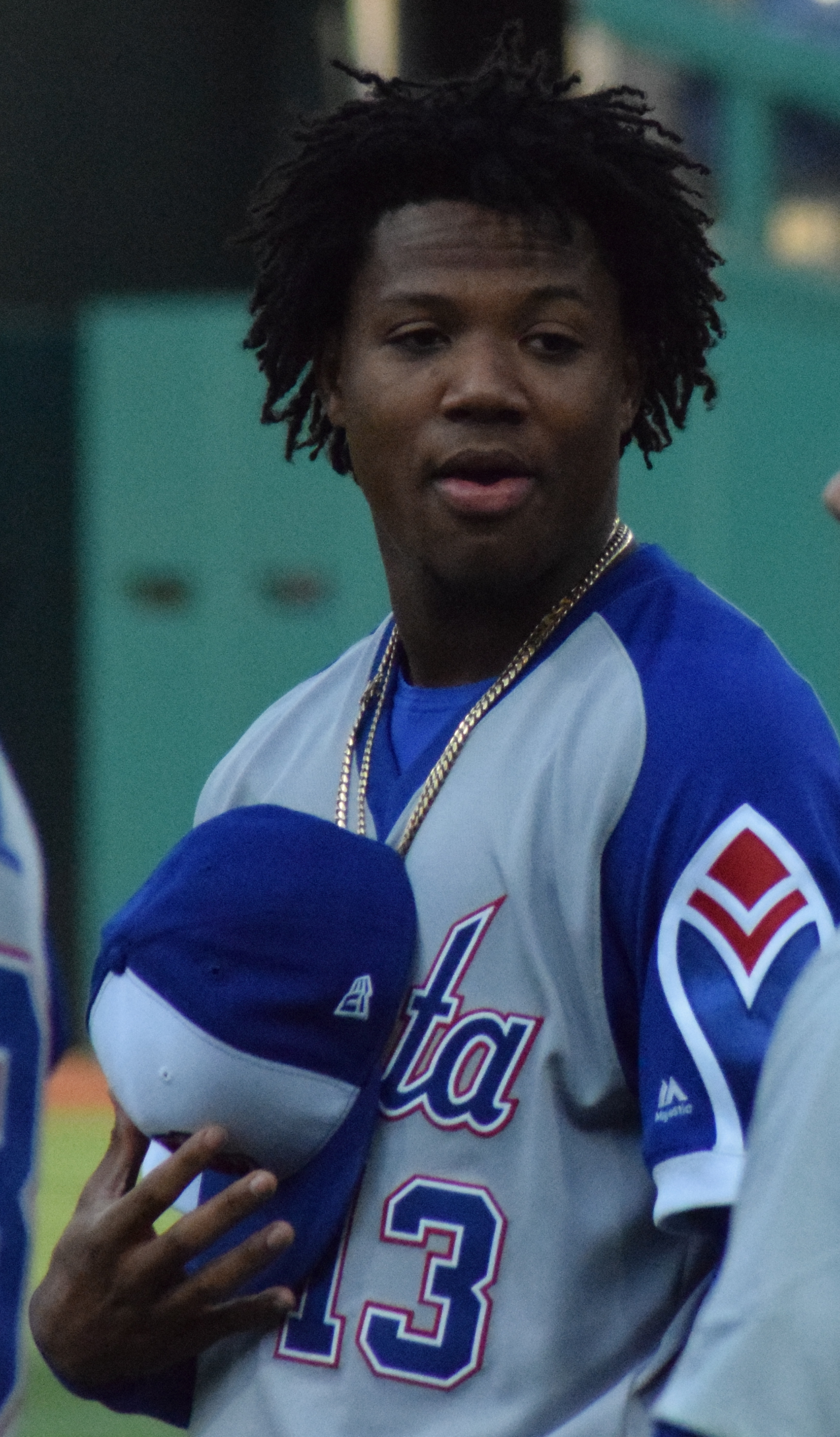 Adam Duvall and Ronald Acuna of the Atlanta Braves before a 2019 game at Citizens Bank Park in Philadelphia